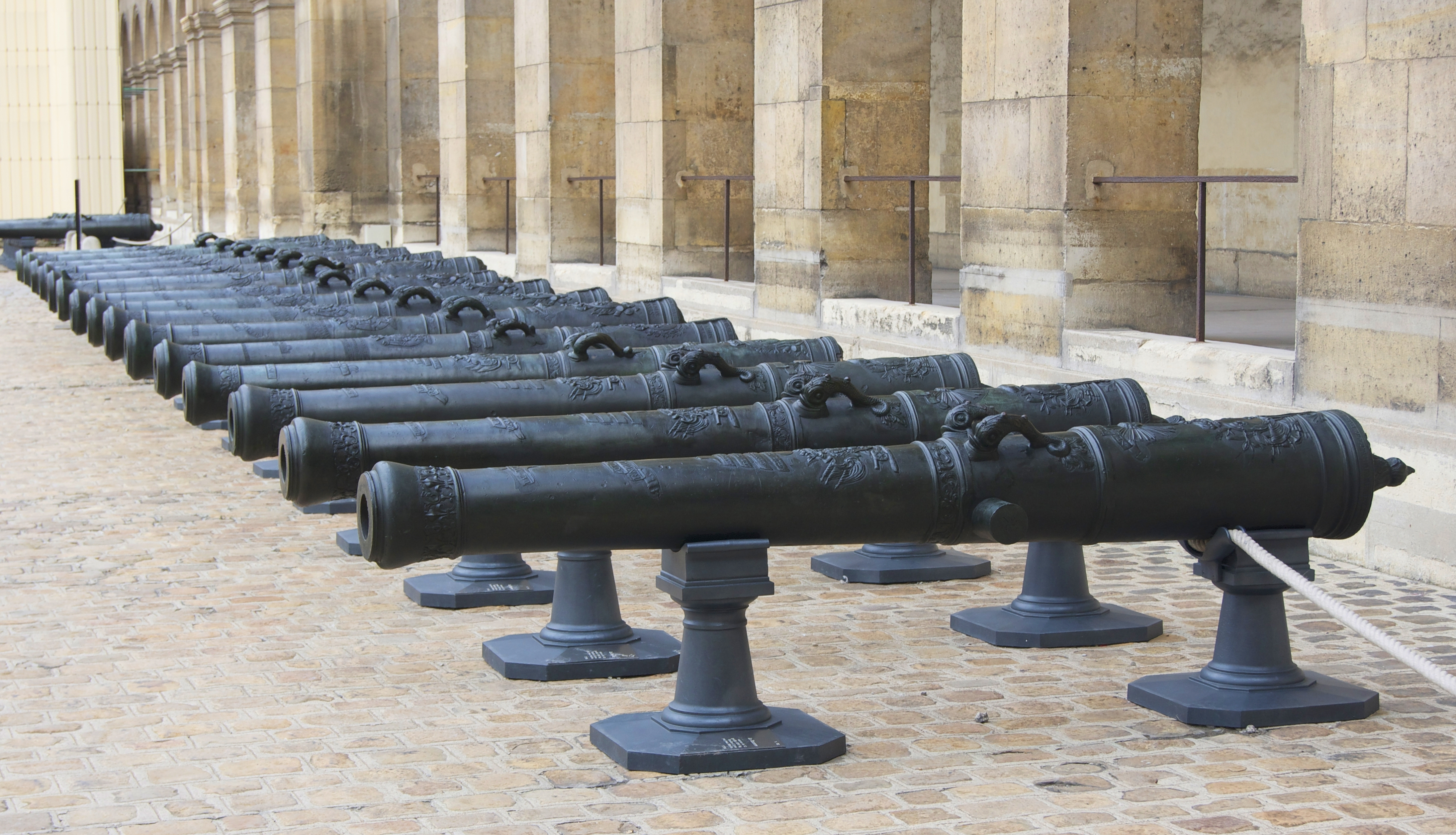 Some bronze cannons, 1736, Honor Courtyard of Les Invalides, Paris